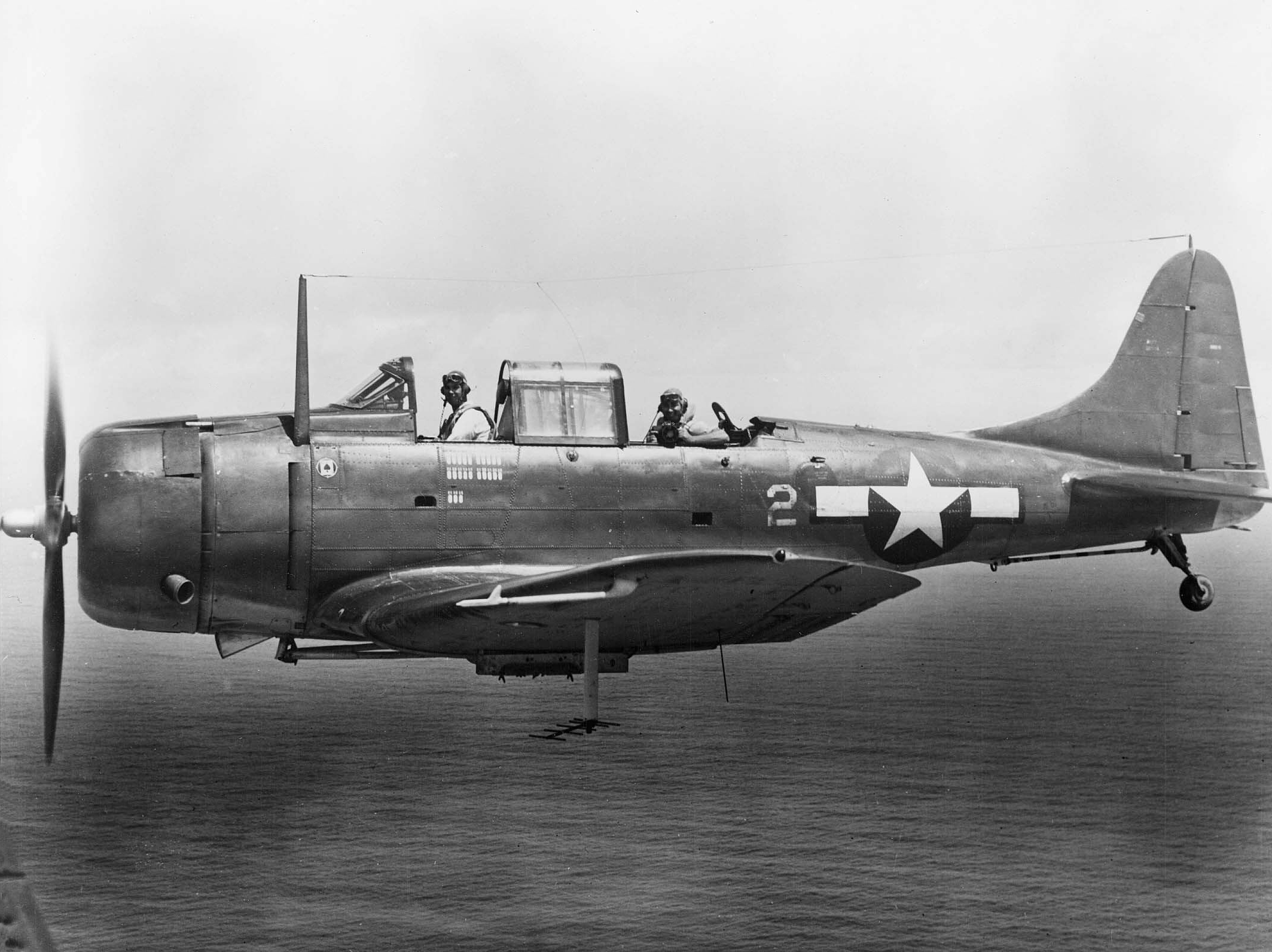 A U.S. Marine Corps Douglas SBD-6 Dauntless from Marine scout/bombing squadron VMSB-231 Ace of Spades flying from Majuro Atoll in early 1944. The markings indicate 23 bombing missions having been flown by the aircraft. Note the mission markings and Ace of Spades insignia on the aircraft. The pilot of the aircraft is Major Elmer G. Glidden, a Midway and Guadalacanal veteran, who commanded VMSB-231 twice during the period September 1942-September 1943 and 1 November 1943-September 1944. He logged 104 combat dives during World War II. Redesignated from Marine Scouting Squadron Two (VMS-2) in July 1941, VMSB-231 aircraft flew to Midway in December 1941, and in March 1942 some elements returned to Hawaii. The remaining personnel formed the nucleus of a new squadron, VMSB-241, which fought during the Battle of Midway in June 1942. Following the battle, the survivors returned to VMSB-231. The squadron arrived at Guadalcanal on 30 August 1942, and remained there until November. Subsequently, the squadron served in the Marshalls, where for a brief time it flew F4U Corsairs under the designation VMBF-231. The squadron was redesignated VMTB-231 in August 1945. (National Museum of Naval Aviation)